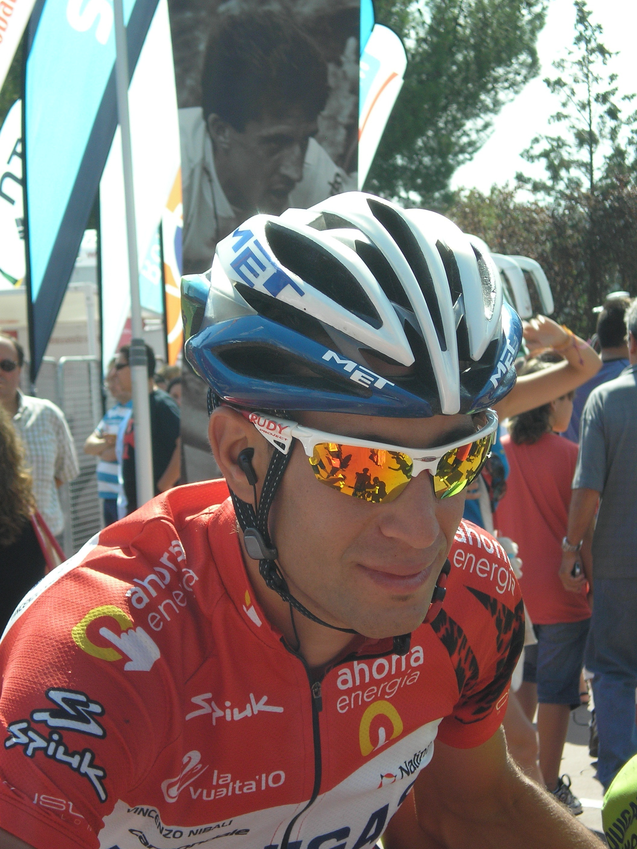 Vincenzo Nibali, winner of the 75th Vuelta a España, 2010.